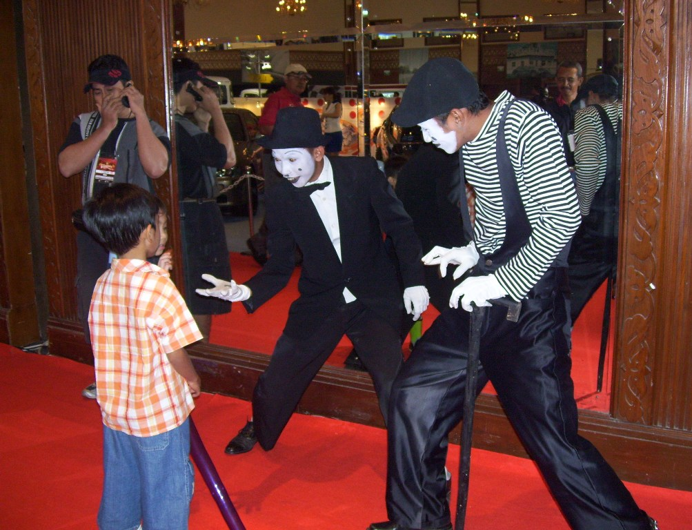 Performer Pantomim